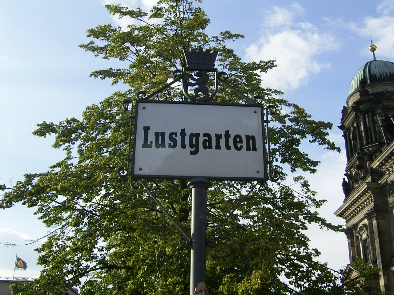 Sign stating Lustgarten in Berlin, Germany